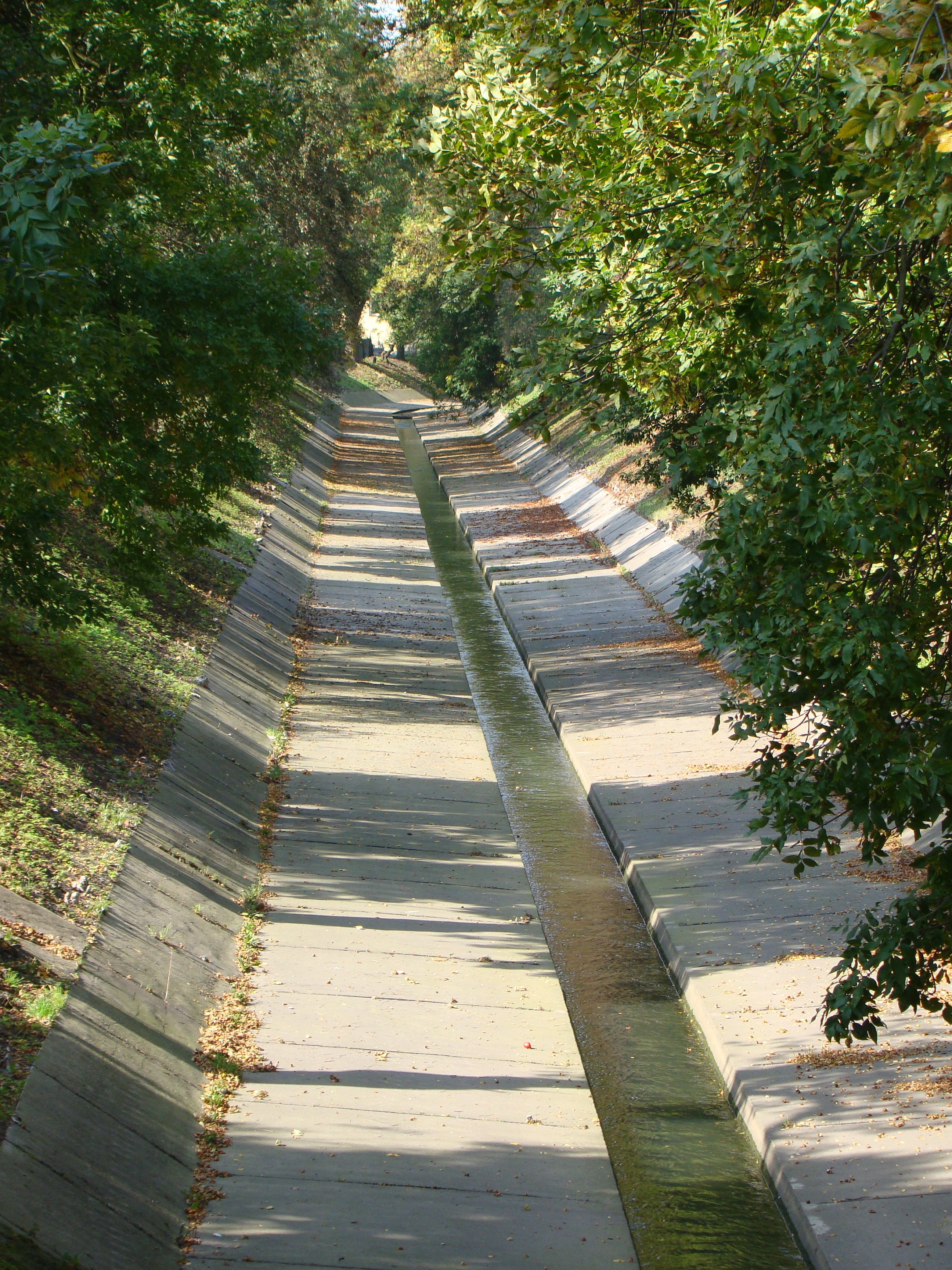 Jasień River in Łódź